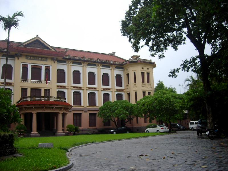 Vietnam Fine Arts Museum